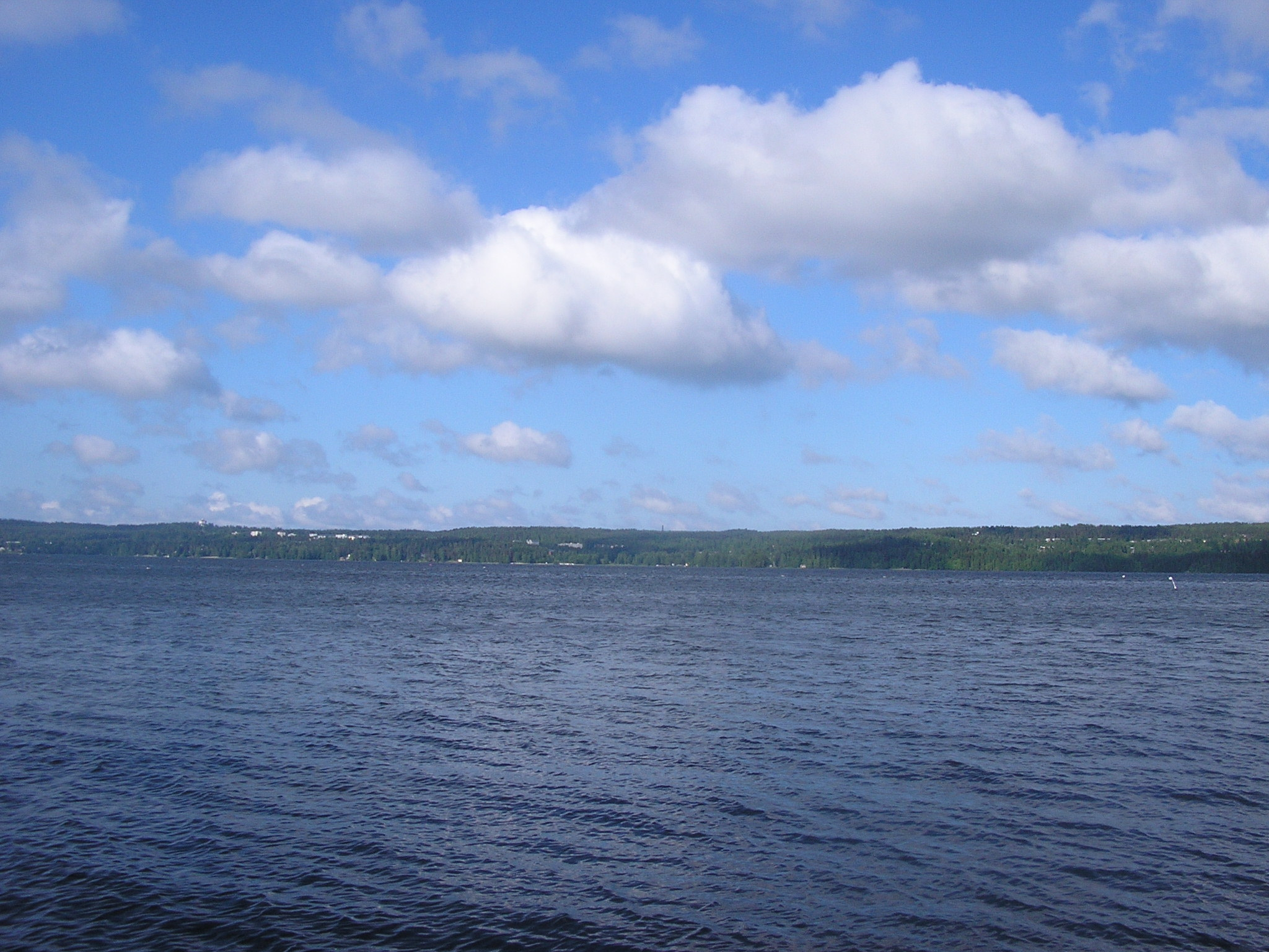 Vesijärvi pictured from Mukkula, Lahti, Finland